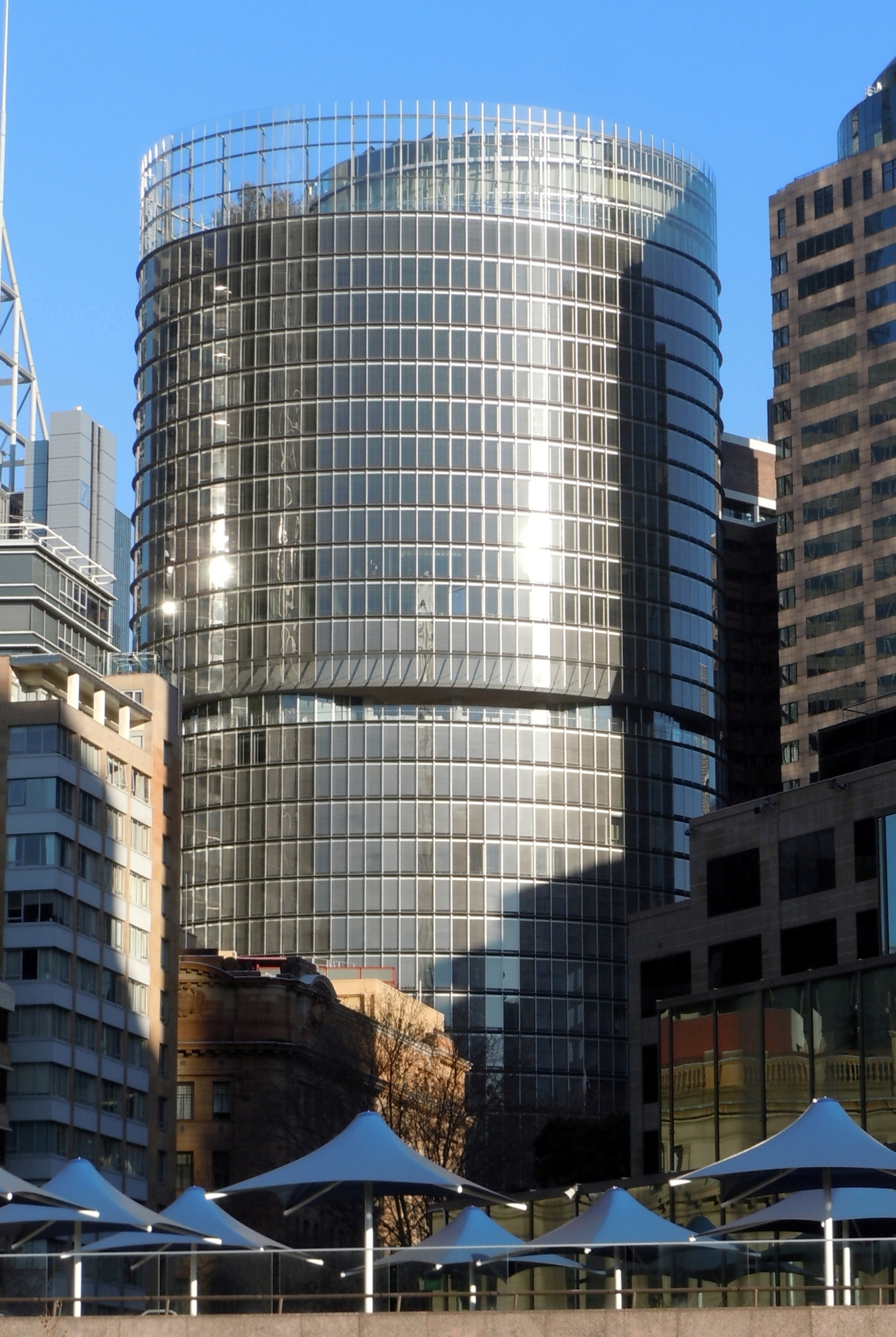 Space 1 Bligh